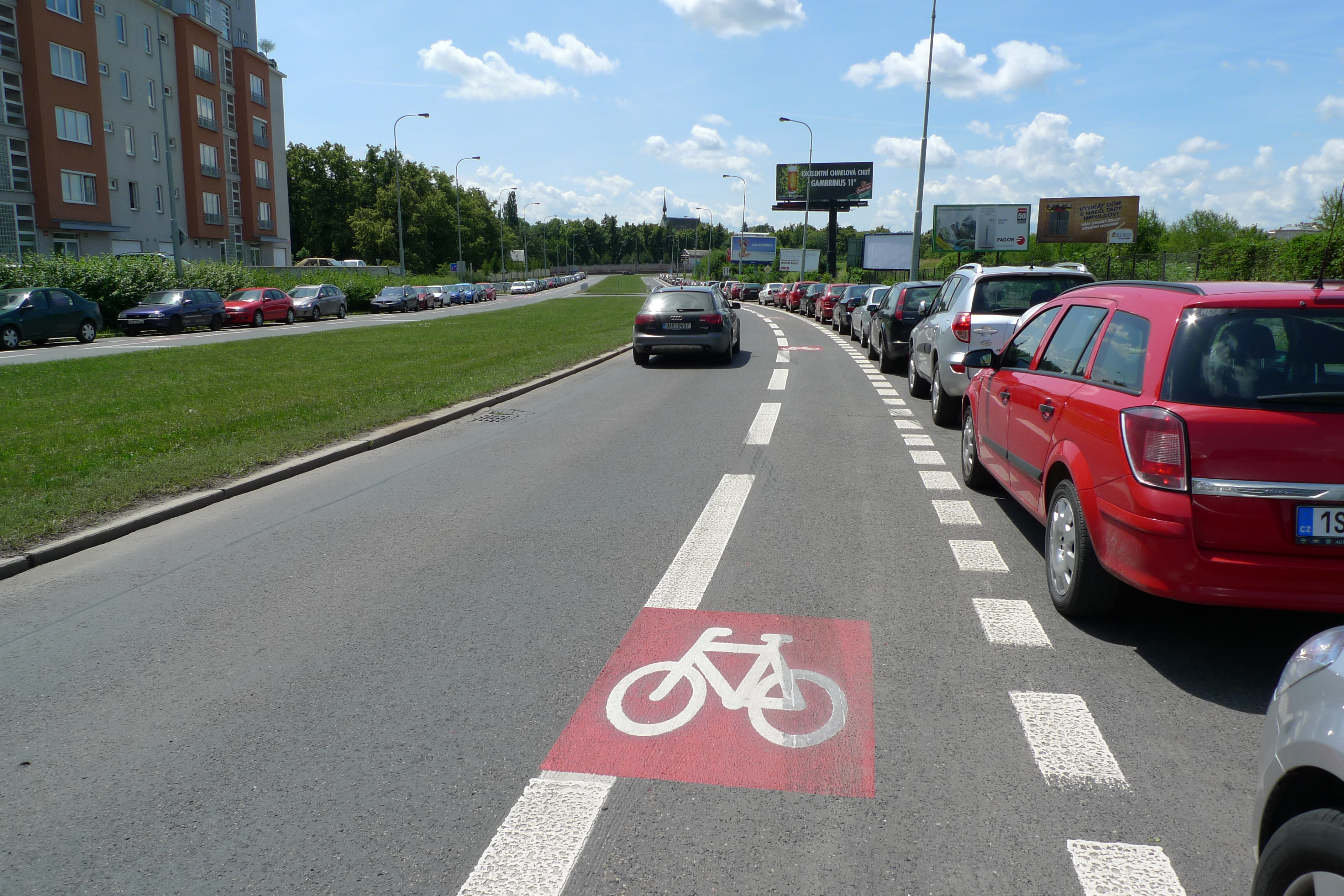 Cycle lane in Prague 10-Strašnice, Czech Republic